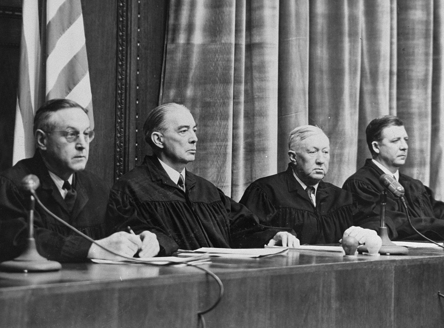 The Military Tribunal I judges hearing the Doctors Trial. From left to right are Harold L. Sebring, Walter B. Beals, Johnson T. Crawford, and Victor C. Swearingen. [Photograph #82957] Richterbank Nürnberger Ärzteprozess: Von links nach rechts: Harold L. Sebring, Walter B. Beals, Johnson T. Crawford, und Victor C. Swearingen. [Fotografie#82957]